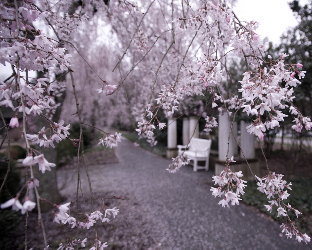 Late march photo at Reynolda Gardens